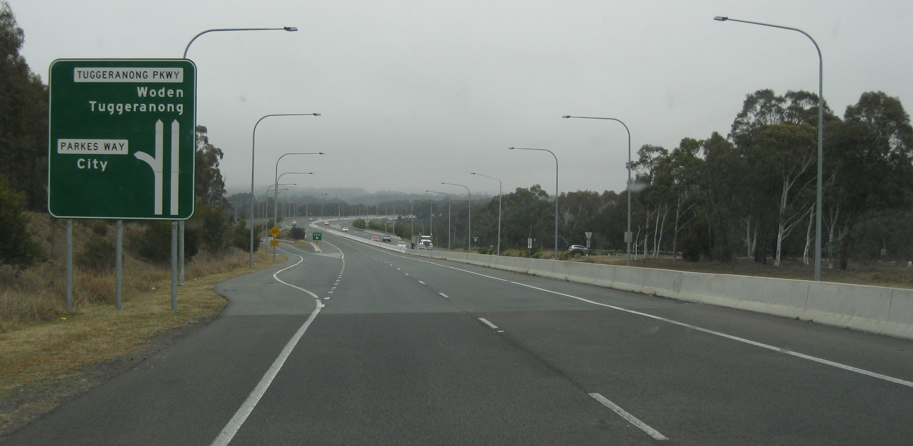 View south from northern end of Glenloch Interchange. Note: Very foggy weather.